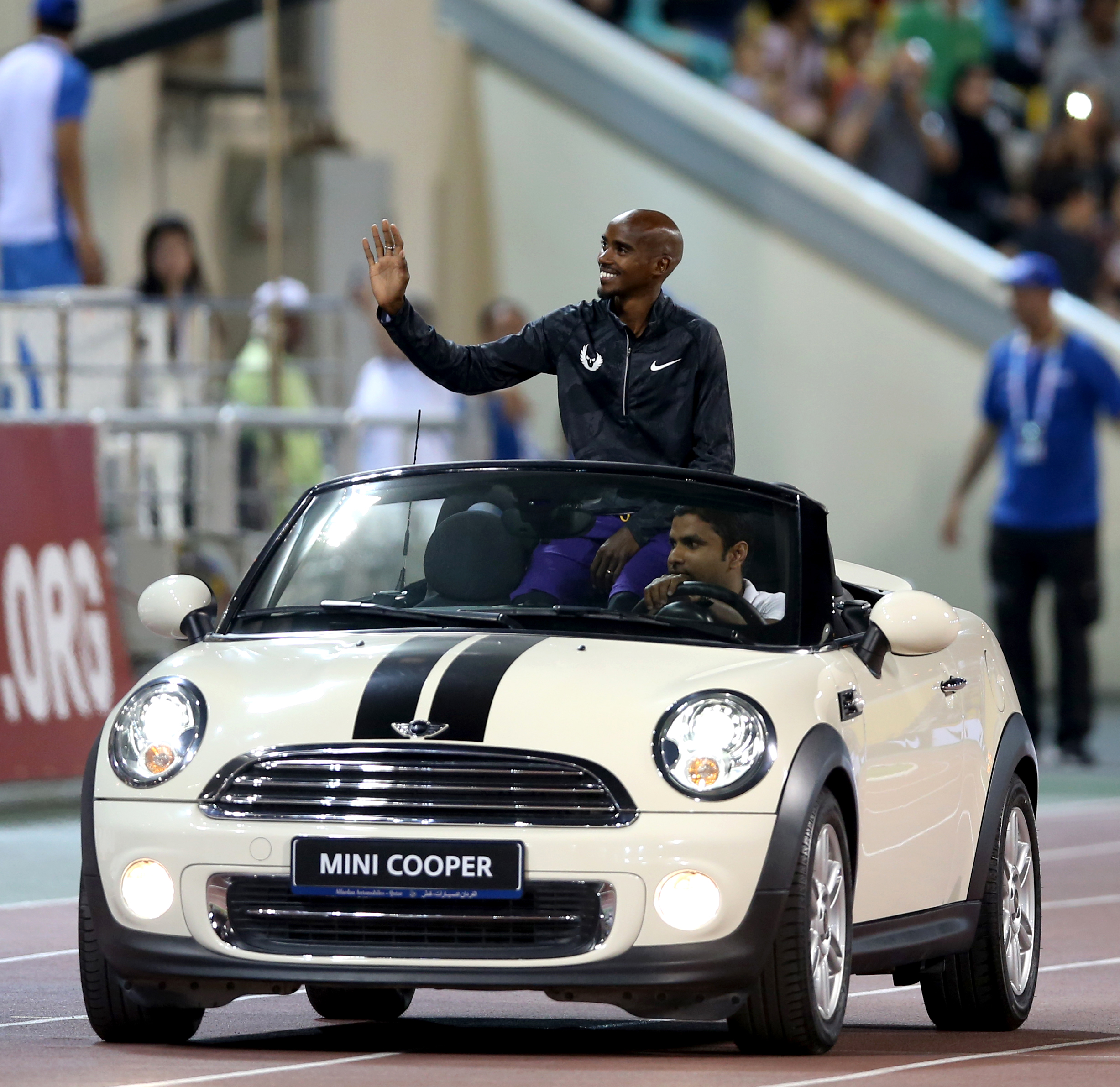 British long distance runner Mo Farah is introduced to the crowd during the Doha Diamond League.